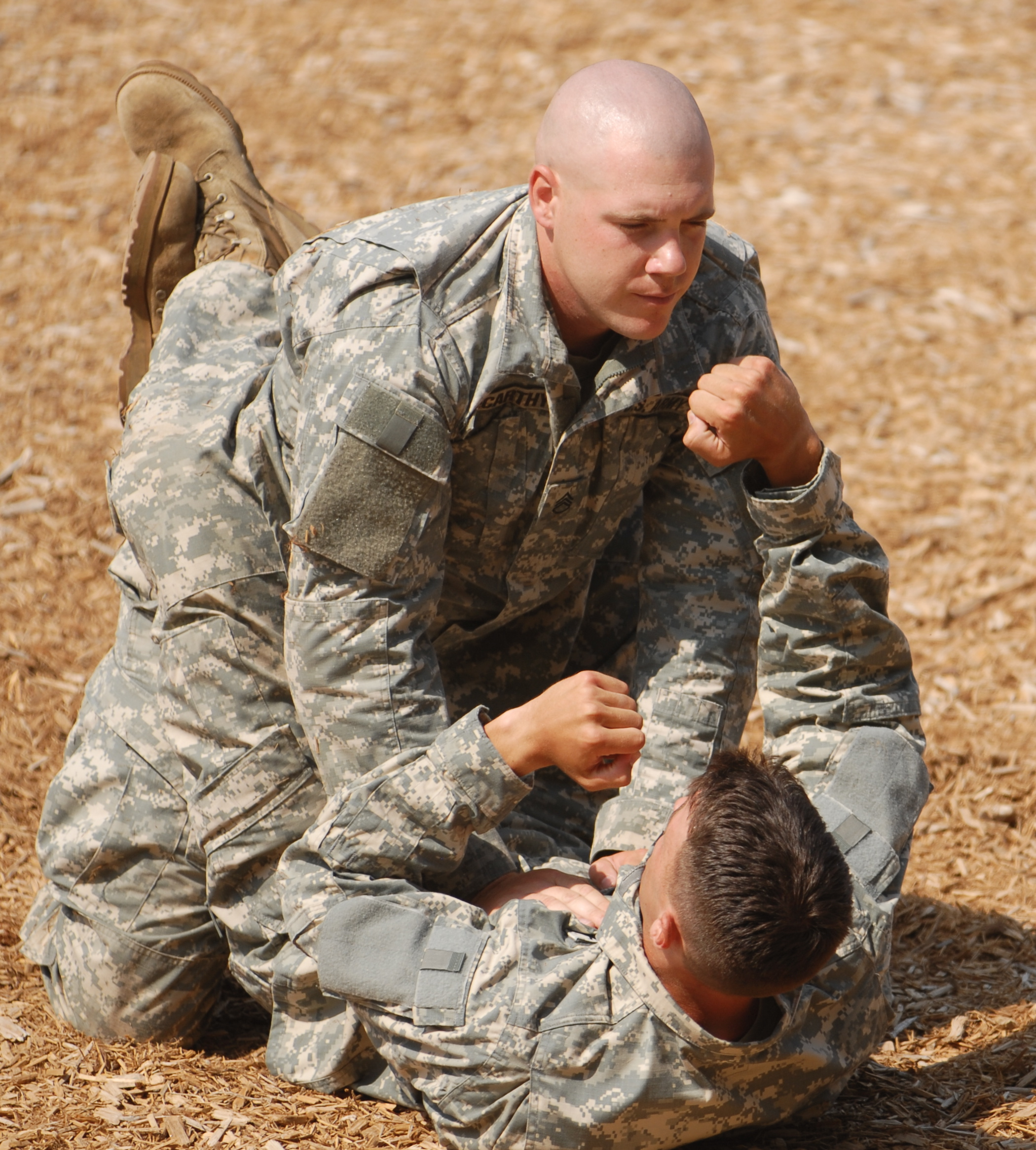 US Army photos by Edward N. Johnson Cleared for public release.